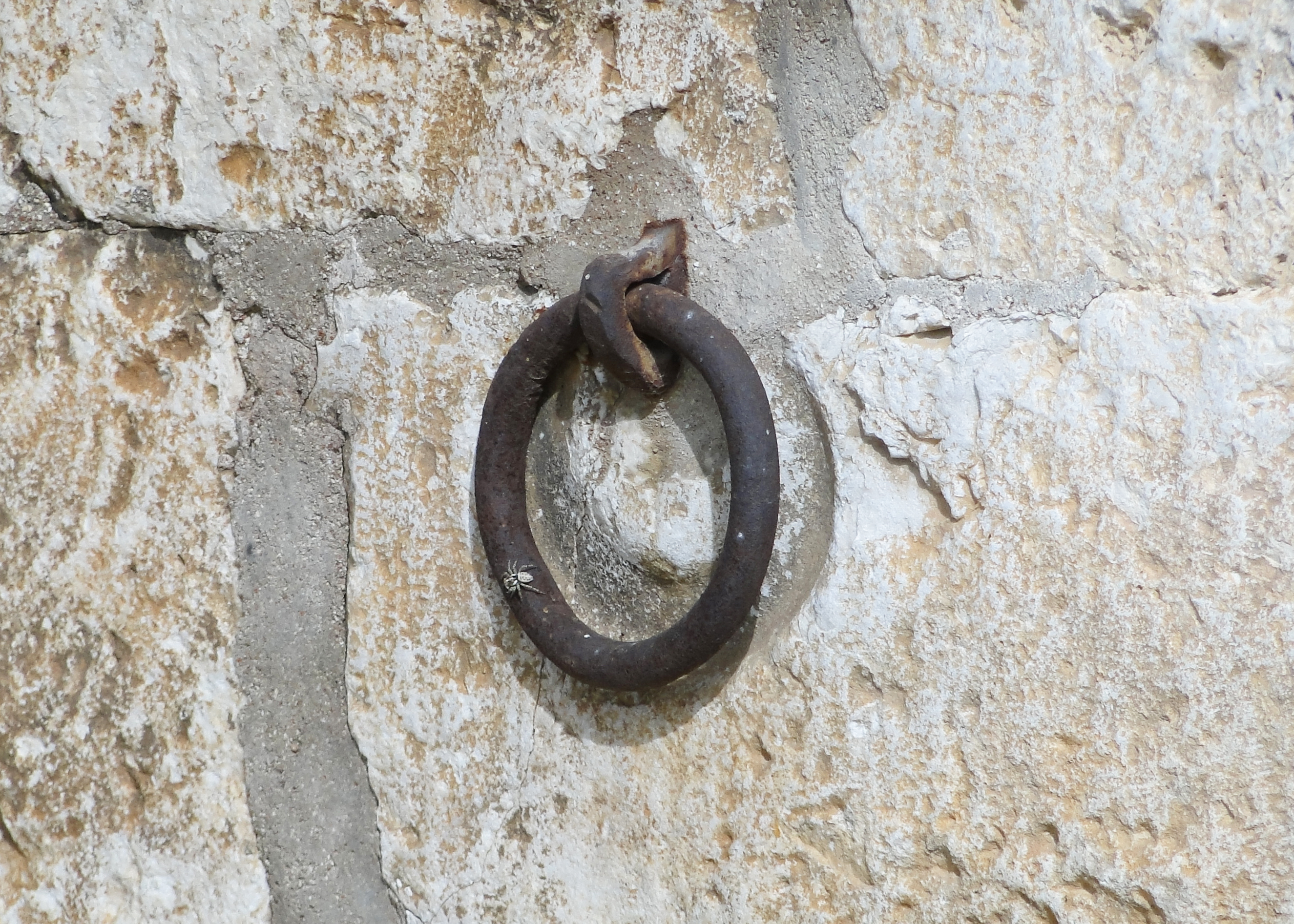 Ring to tie horses at the caravanserai of Qalat el-Mudiq, Syria